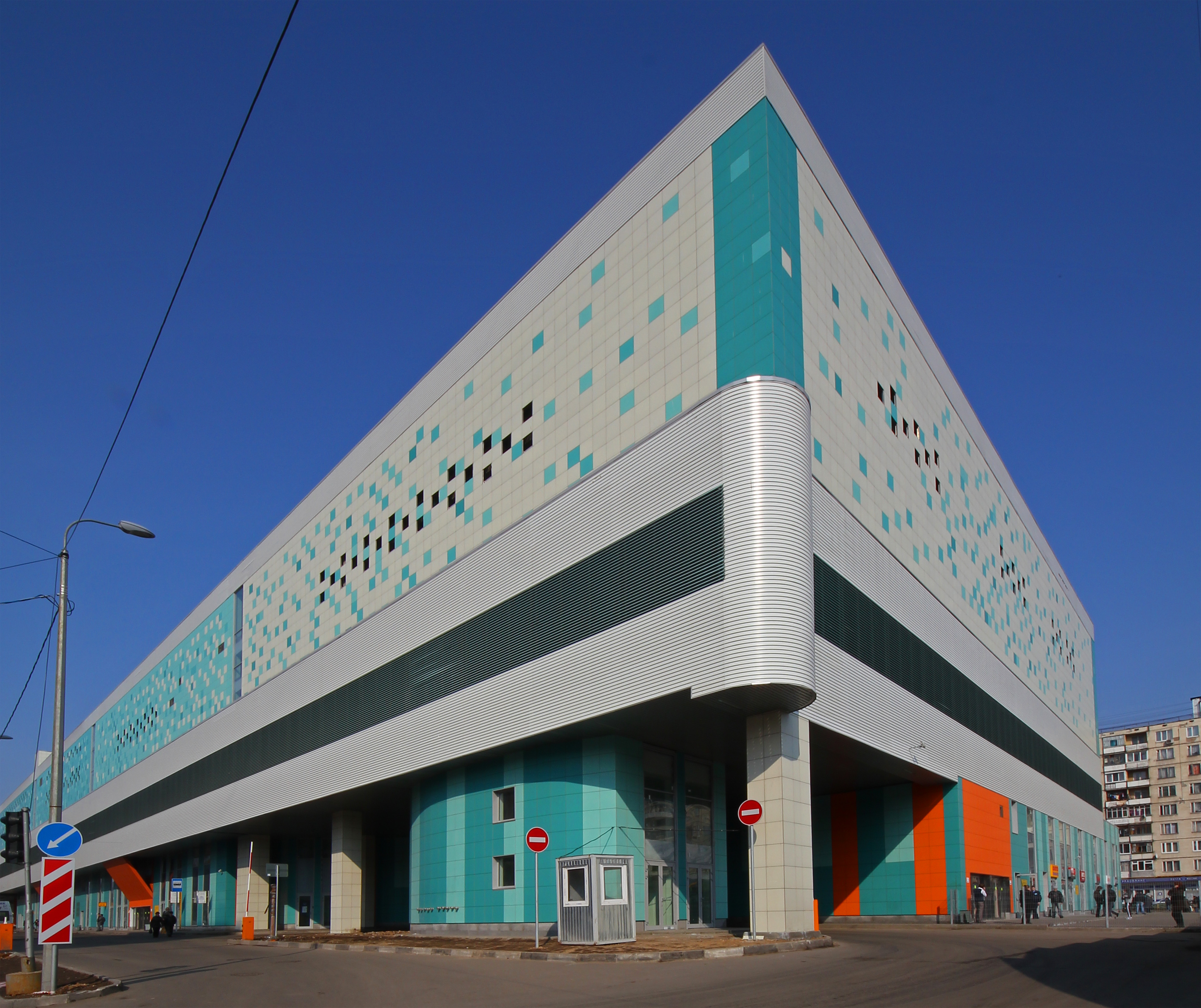 The new transport terminal at the Planernaya subway station, Moscow.